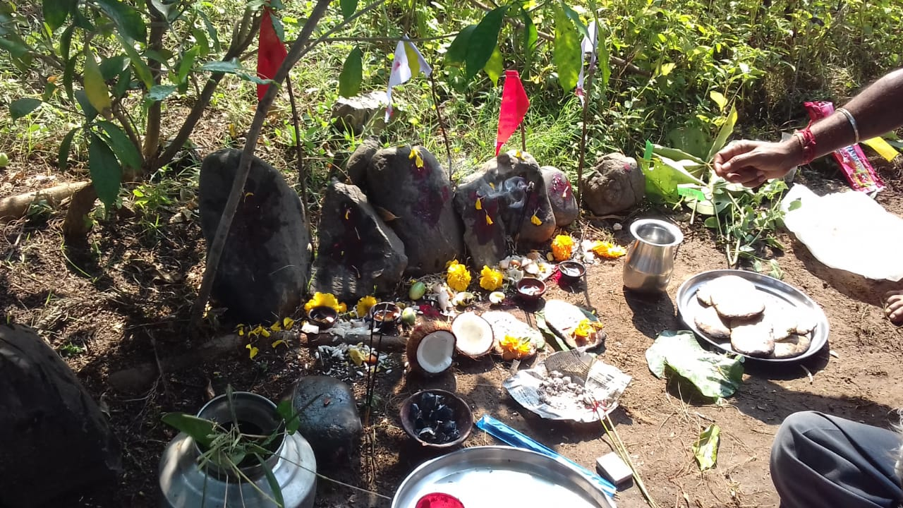 Bhakhra and other ritual ingredients